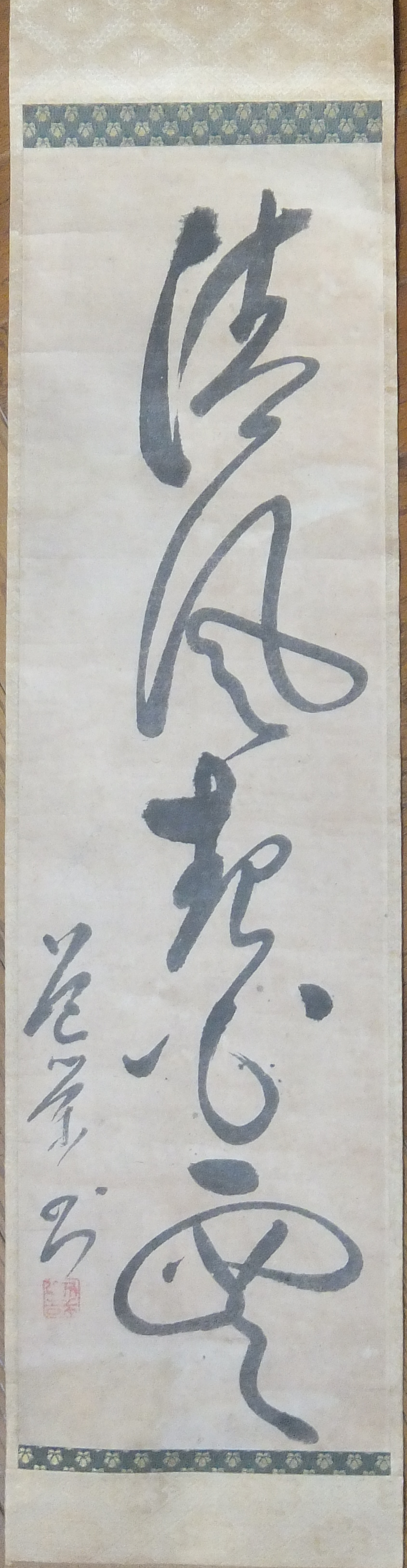 Calligraphy of Hayashi Dōei (1640-1708), interpreter, poet and calligrapher in Nagasaki (Japan)